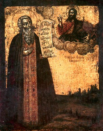 Saint Euthymius of Syzdal